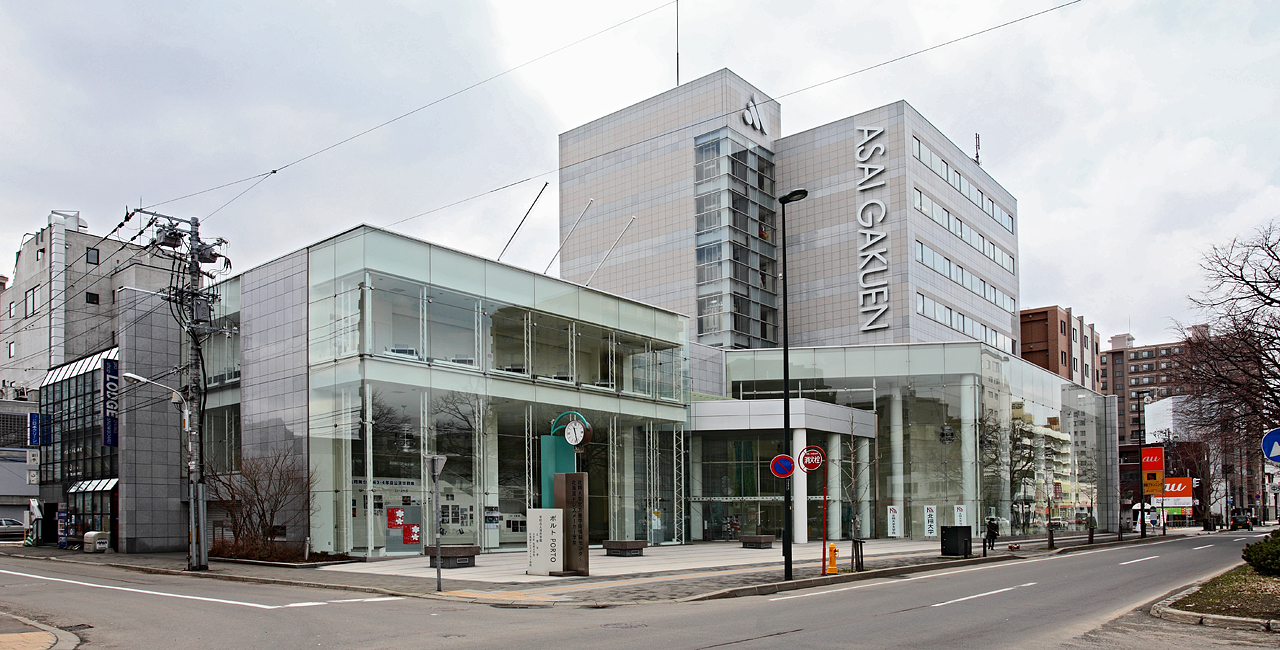 Hokkaido Dressmaker School (college)